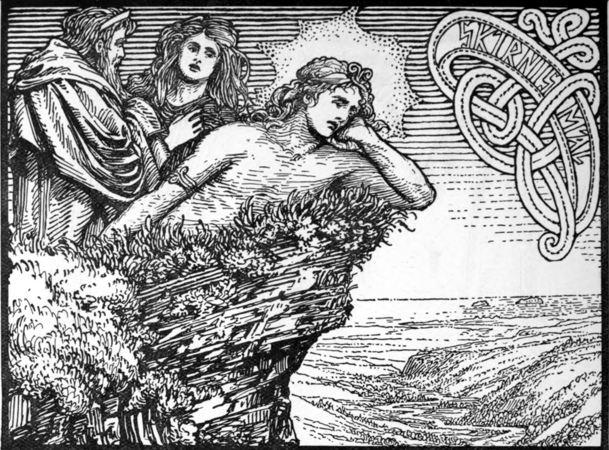 The list of illustrations in the front matter of the book gives this one the title The Lovesickness of Frey.